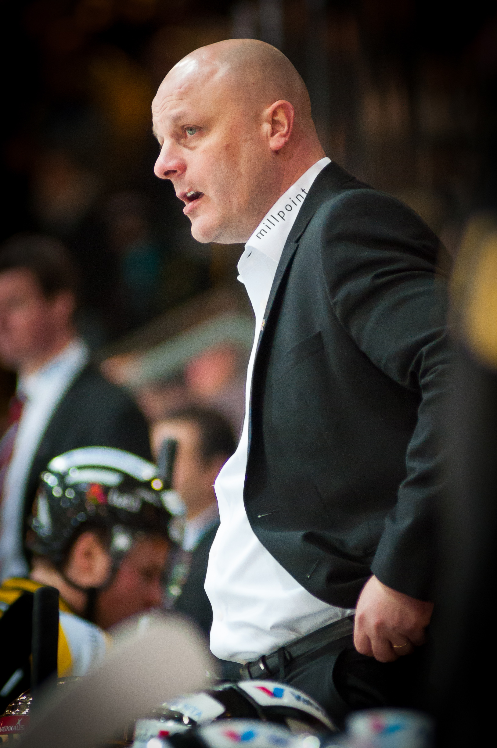 The assistant coach Ari Santanen of SaiPa Lappeenranta during a game against Porin Ässät in Lappeenranta, Finland.